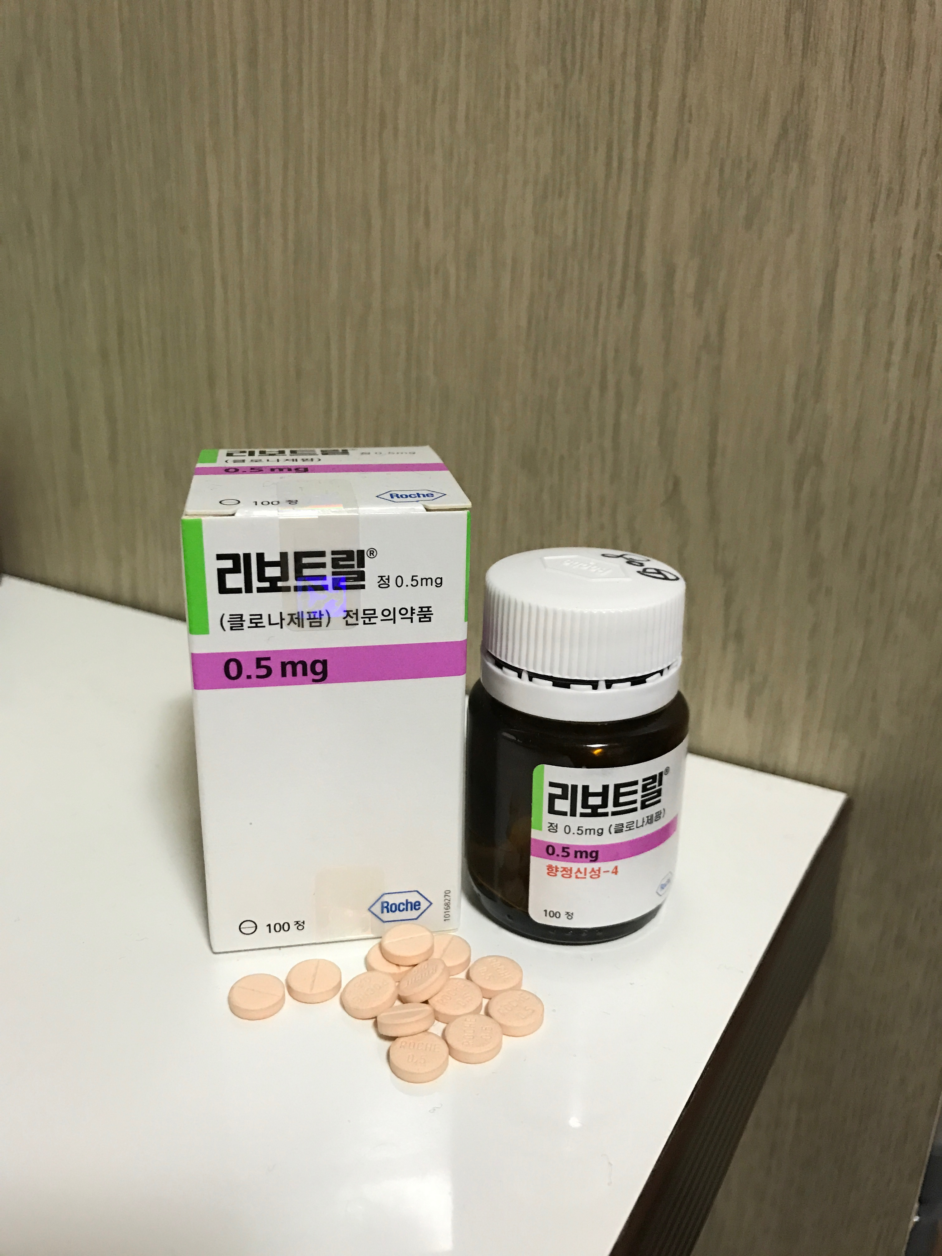 Clonazepam 0.5mg tablet & box & bottle